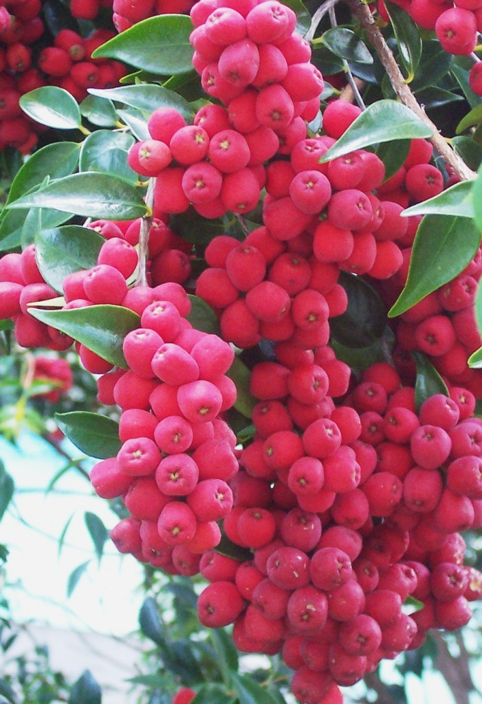 Syzygium_luehmannii_fruit, Pacific Highway, Chatswood